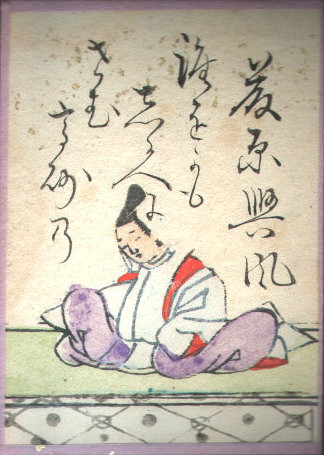 A portrait of Fujiwara no Okikaze; illustration from an uta-garuta playing card for Hyakunin Isshu, created in the Edo period.